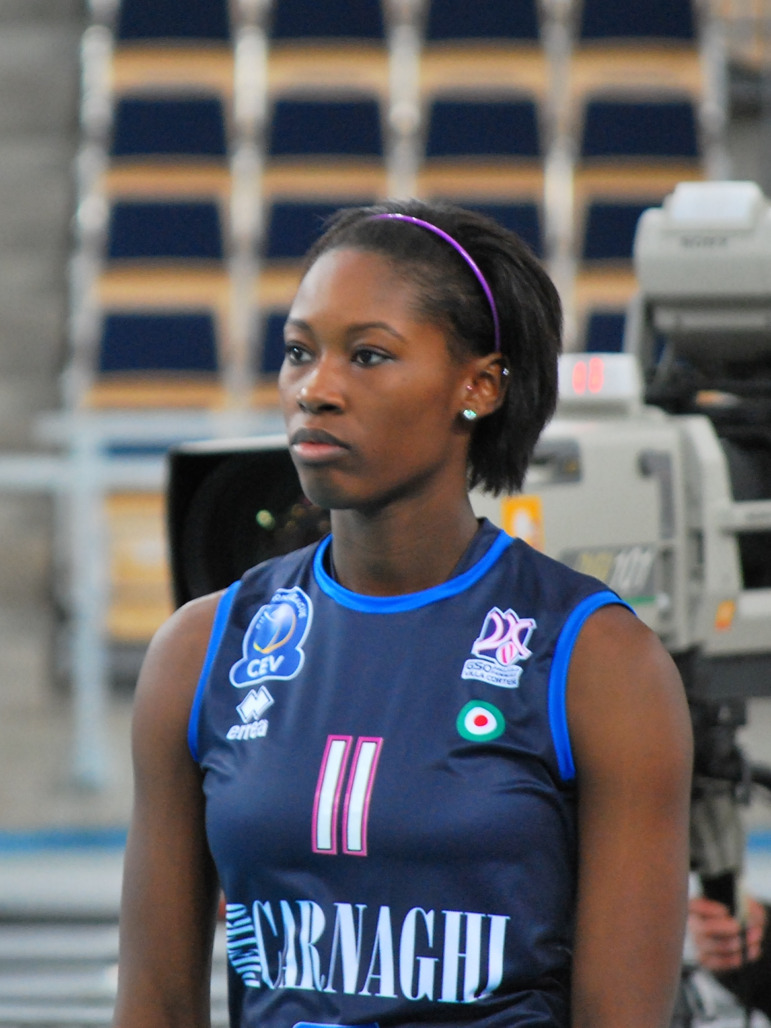 Megan Hodge, american volleyball player